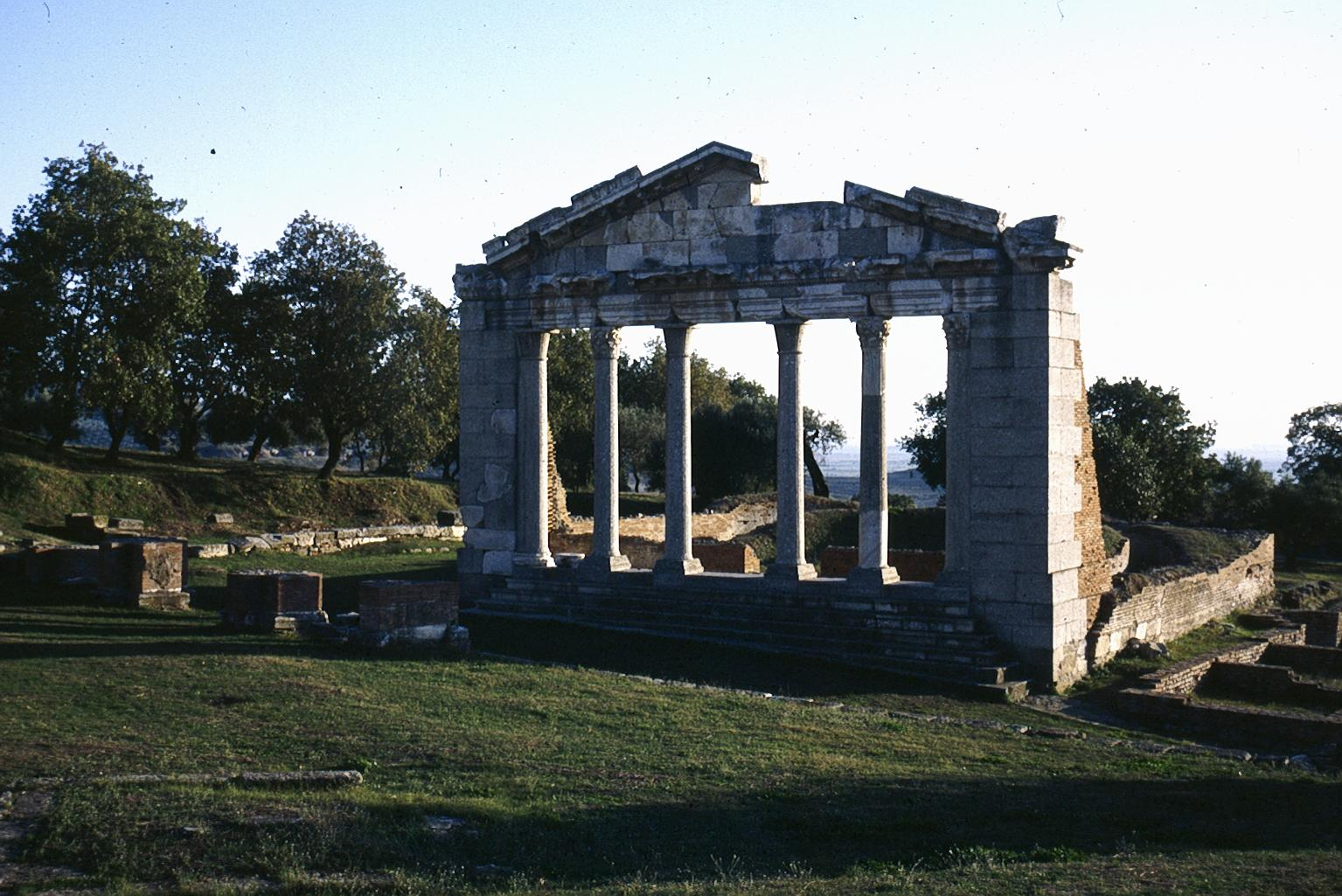 Ruins of Apollonia, Albania, 1988